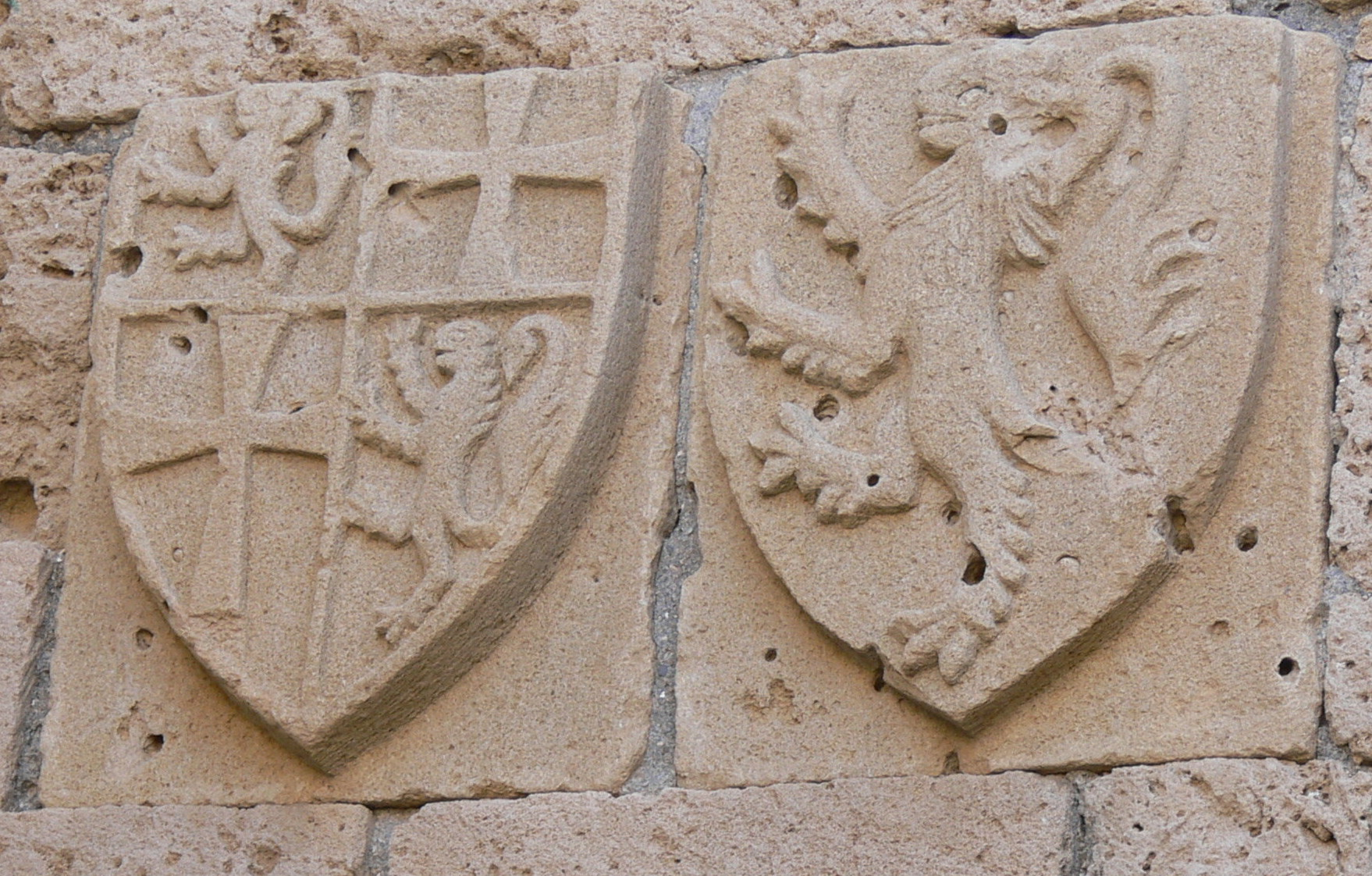 Kyrenia castle ( Northern Cyprus ). Coats of arms of the Kingdom of Cyprus above the inner castle gate.